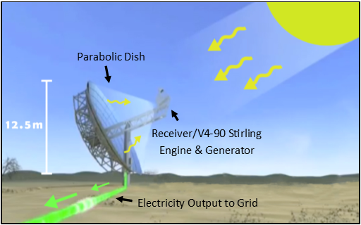 Dish-Stirling Principle